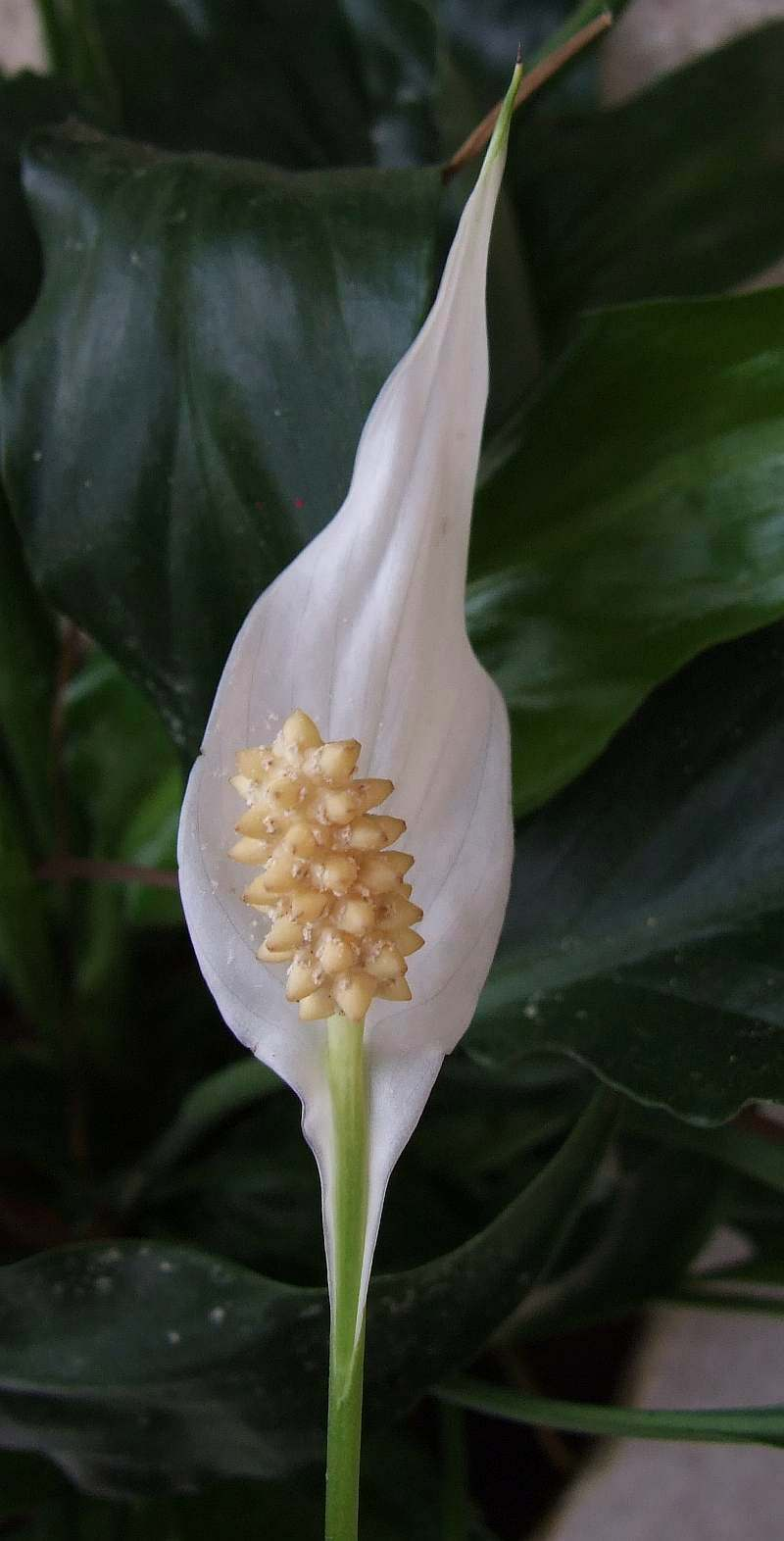 Spathiphyllum wallisii